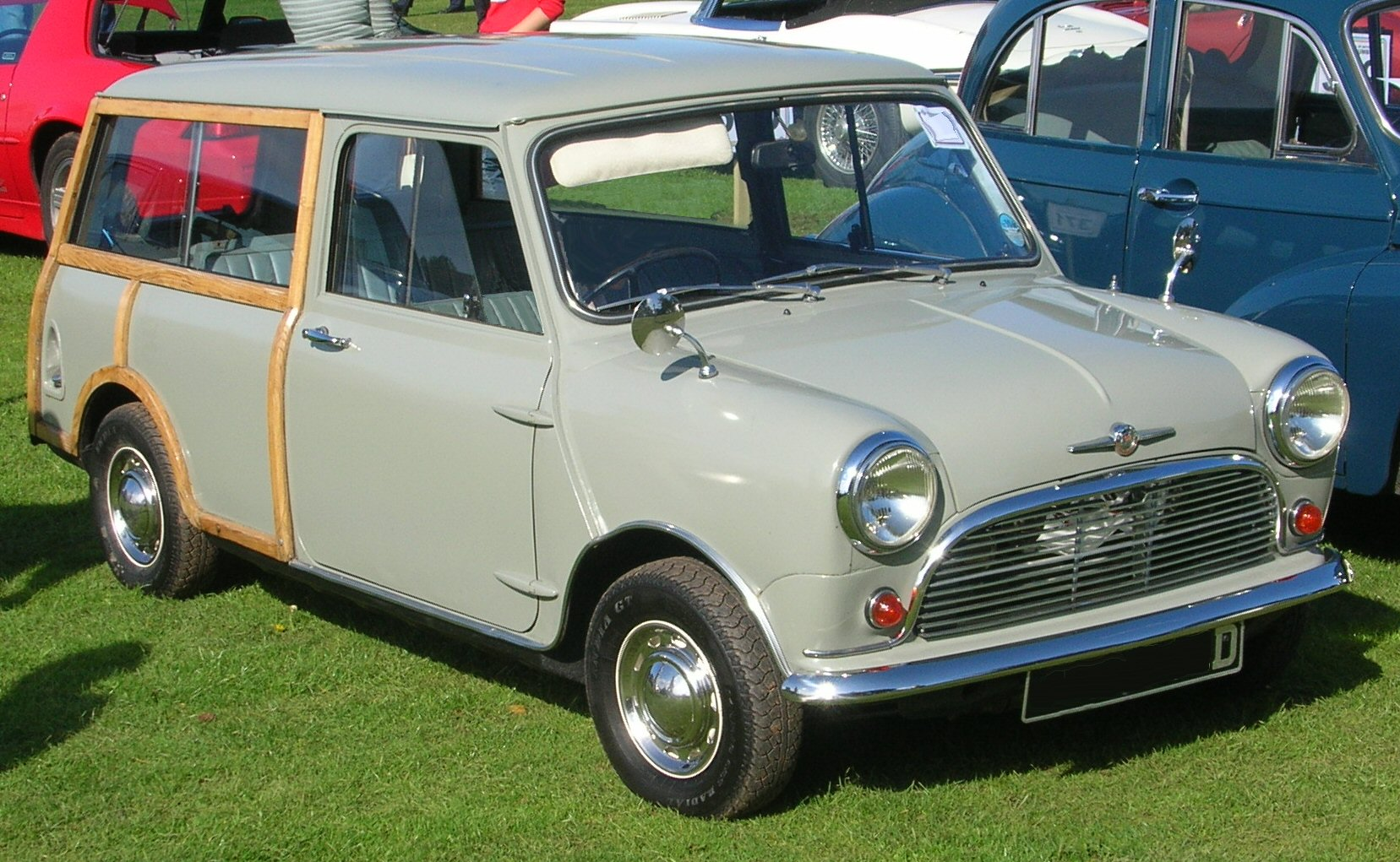 A 1966 Morris Mini Traveller. Photographed at the 2006 Coventry Festival of Motoring.